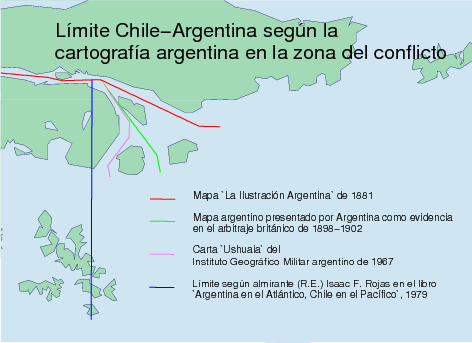 Argentine Cartographie in Beagle Conflict